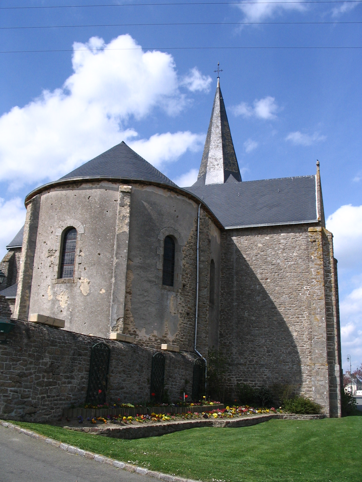 The church of Bournouvel, in Belgeard, Mayenne, France.